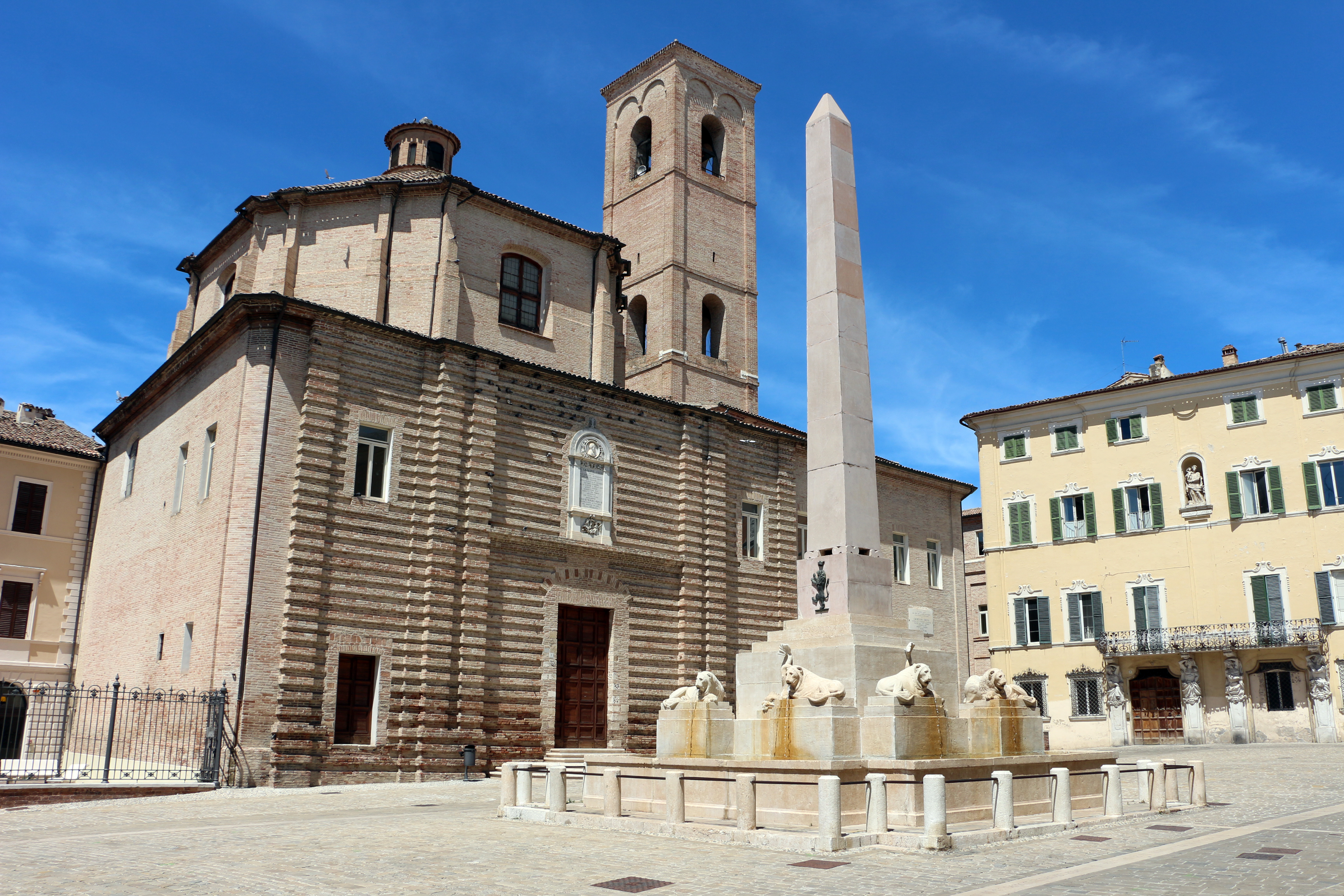 Jesi, Italy